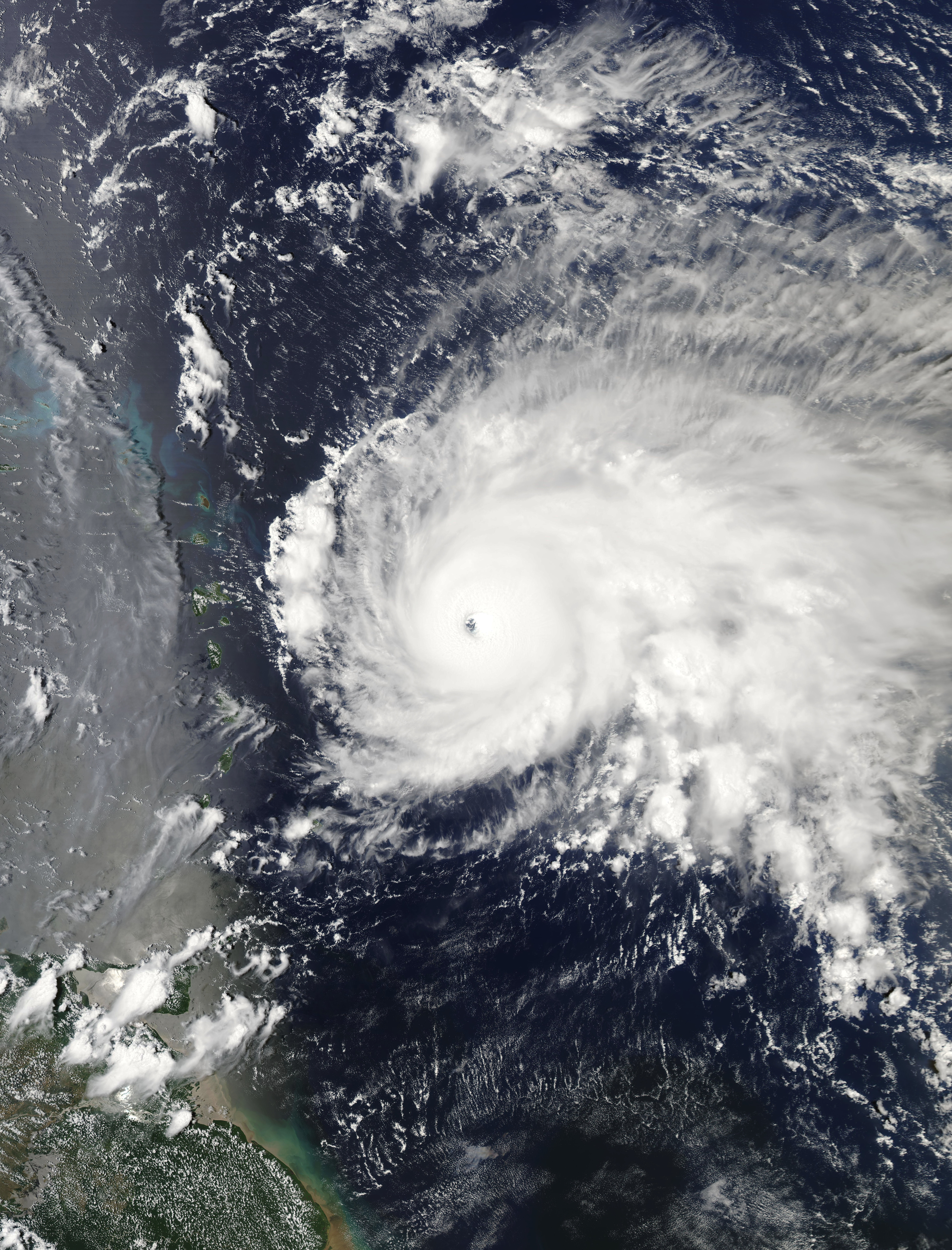 Hurricane Jose shortly before reaching peak intensity on September 8